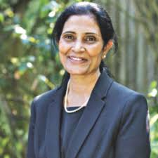 Professor Nirmala Rao in the campus of Asian University For Women